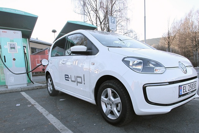 Volkswagen e-Up! charging in Norway